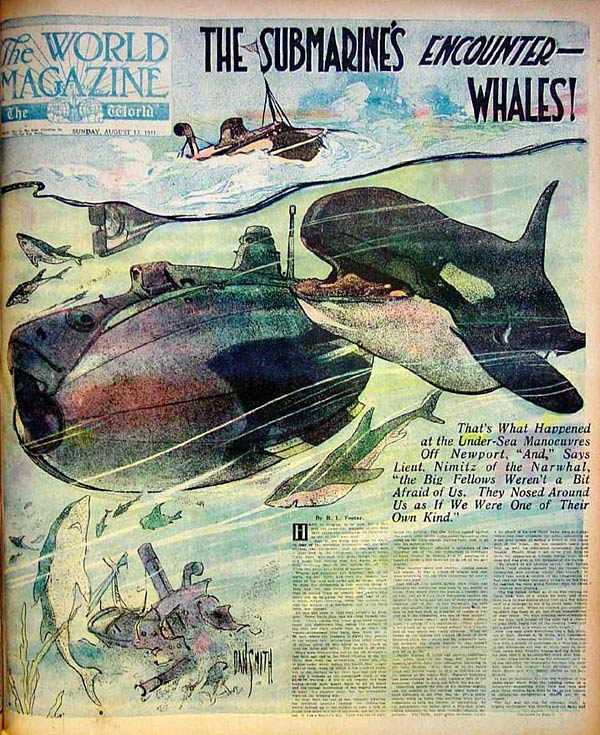 Front page of The World Magazine Colorful layout from the front page of the New York Worlds Sunday magazine, August 13, 1911.